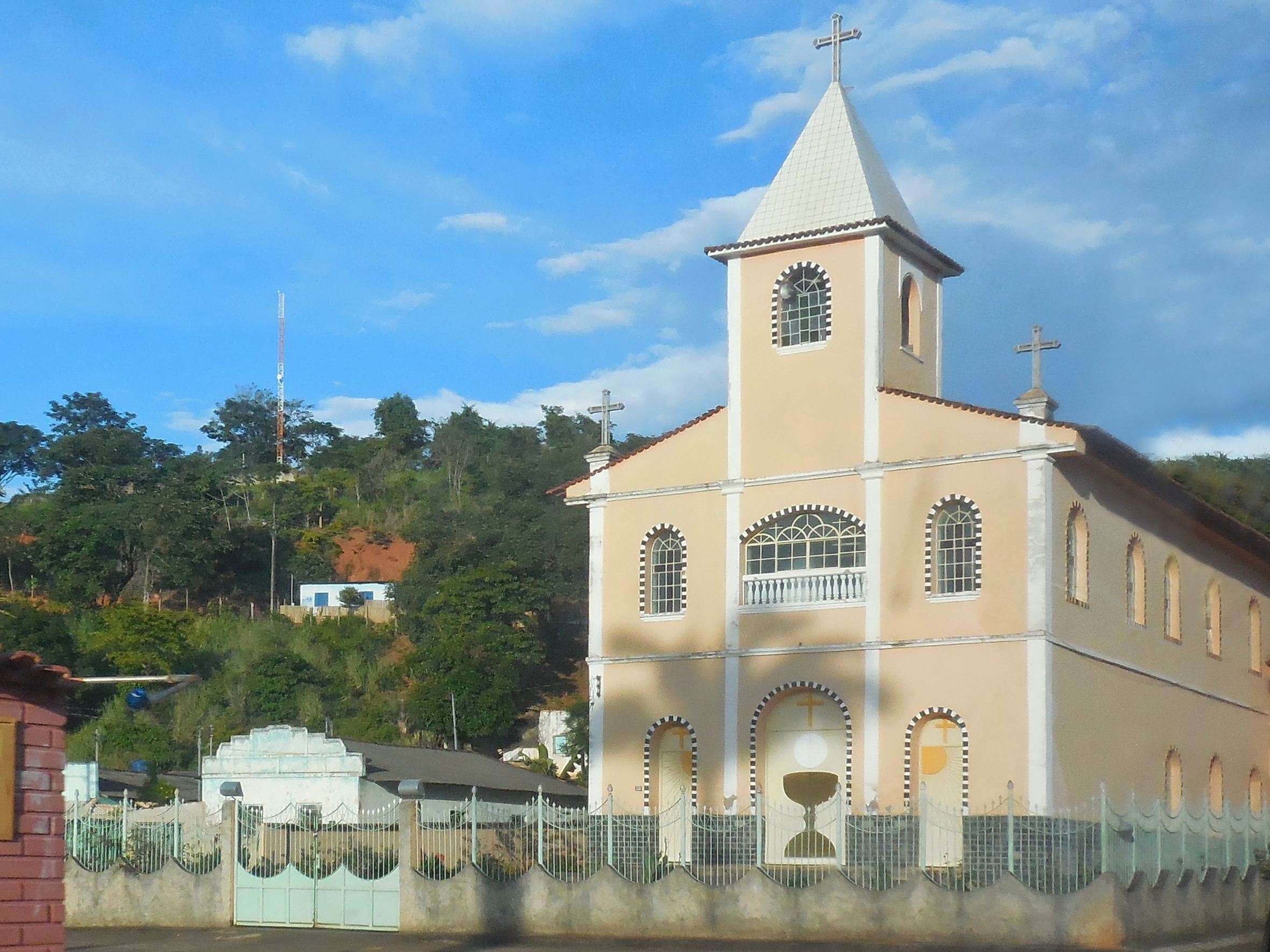 View of the Santa Iphigenia Mother Church, in Córrego Novo, Minas Gerais, Brazil.